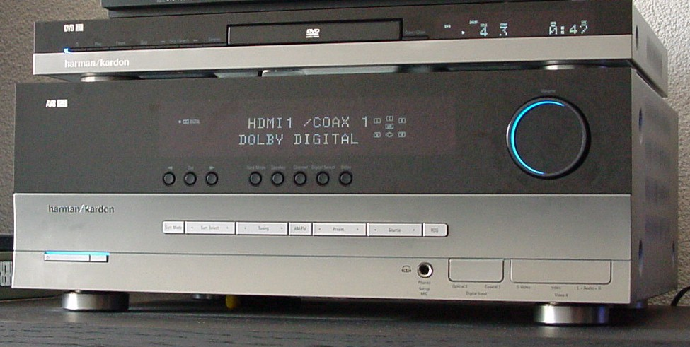 Harman/Kardon AVR 245, DVD 37 and Samsung DCB H360R